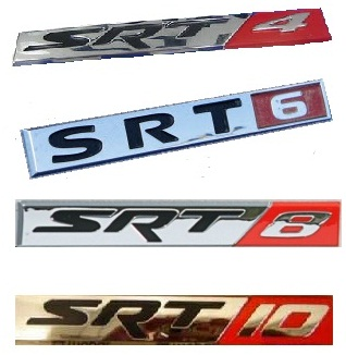 SRT Badges